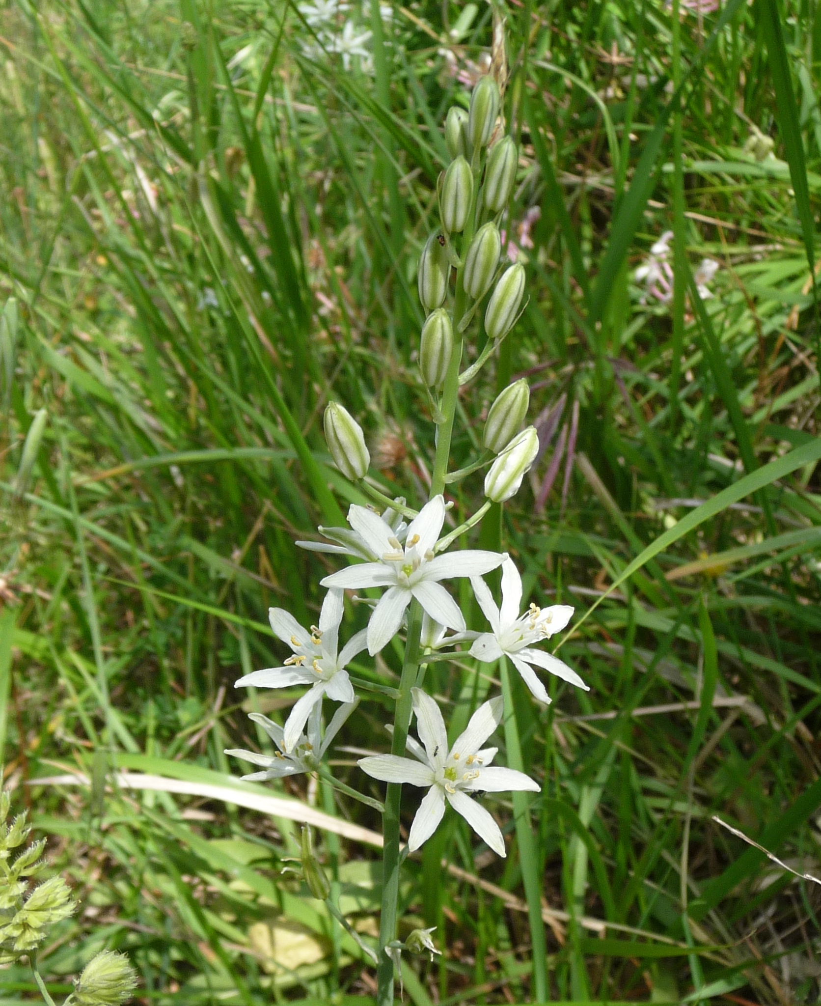 Ornithogalum narbonense, near livorno, Tuscany, Italy